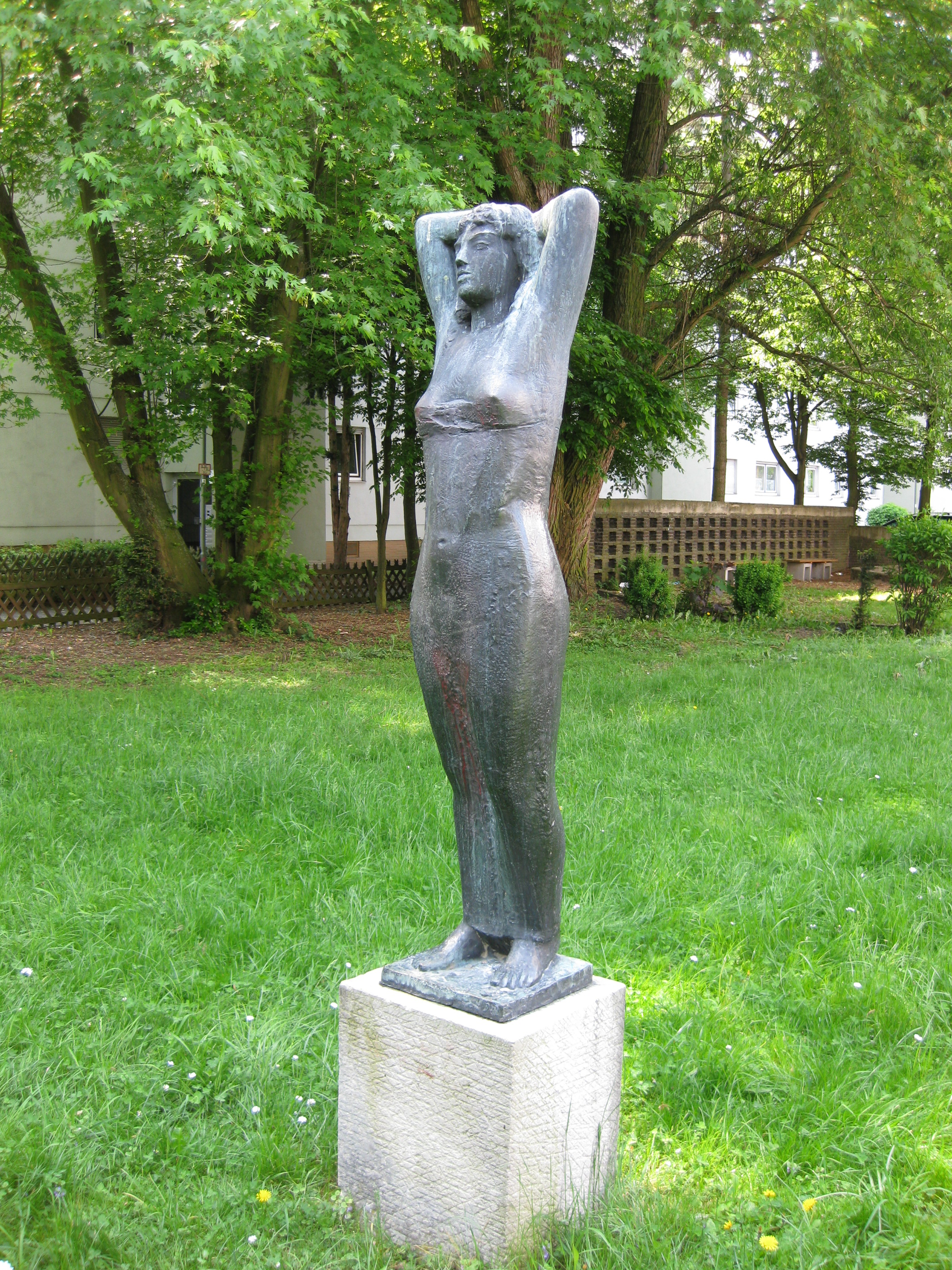 Sculpture "Die Stehende" by Fritz Schwarzbeck (1967) in Offenbach-Lauterborn